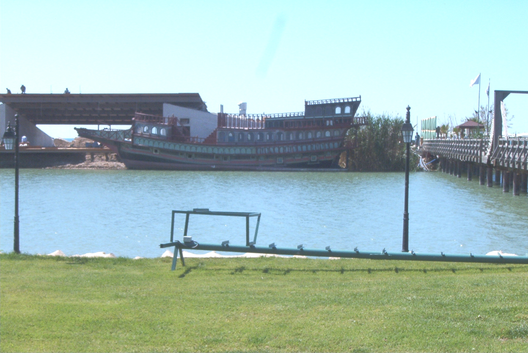 Replica of a ship at the beach of Belek near Antalya (Turkey)